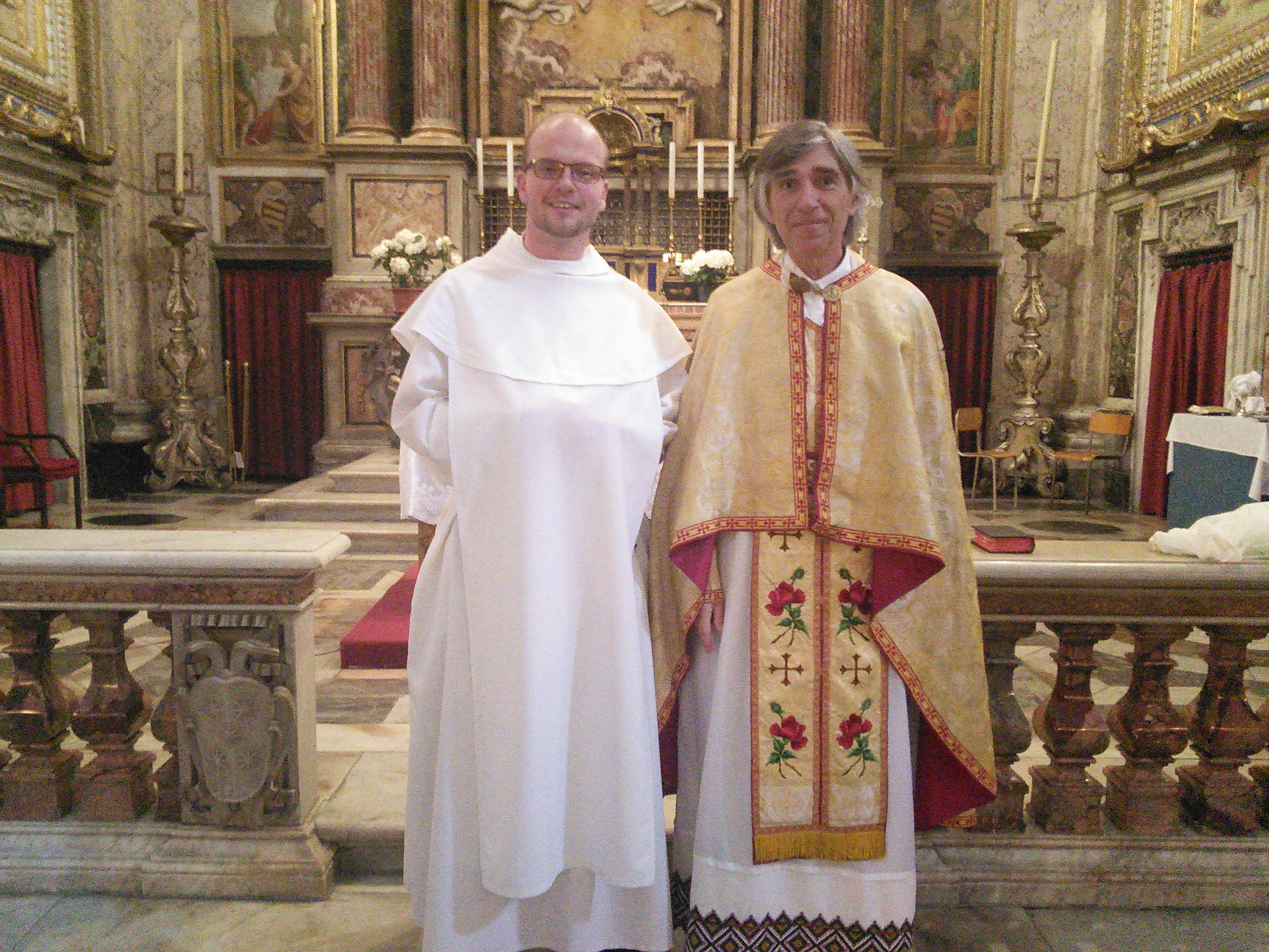 Fr Bazyli Degórski OSPPE and Br Casimir Zielinski OSPPE in the Church of the Angelicum University, after the Divine Liturgy.